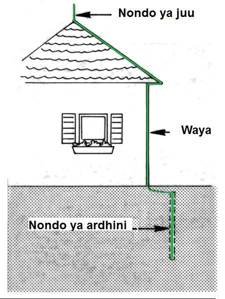 update, adding color